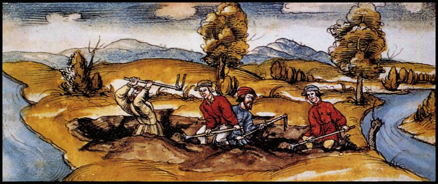 Construction of the Fossa Carolina as depicted in the Chronicles of the Bishops of Würzburg by Lorenz Fries.